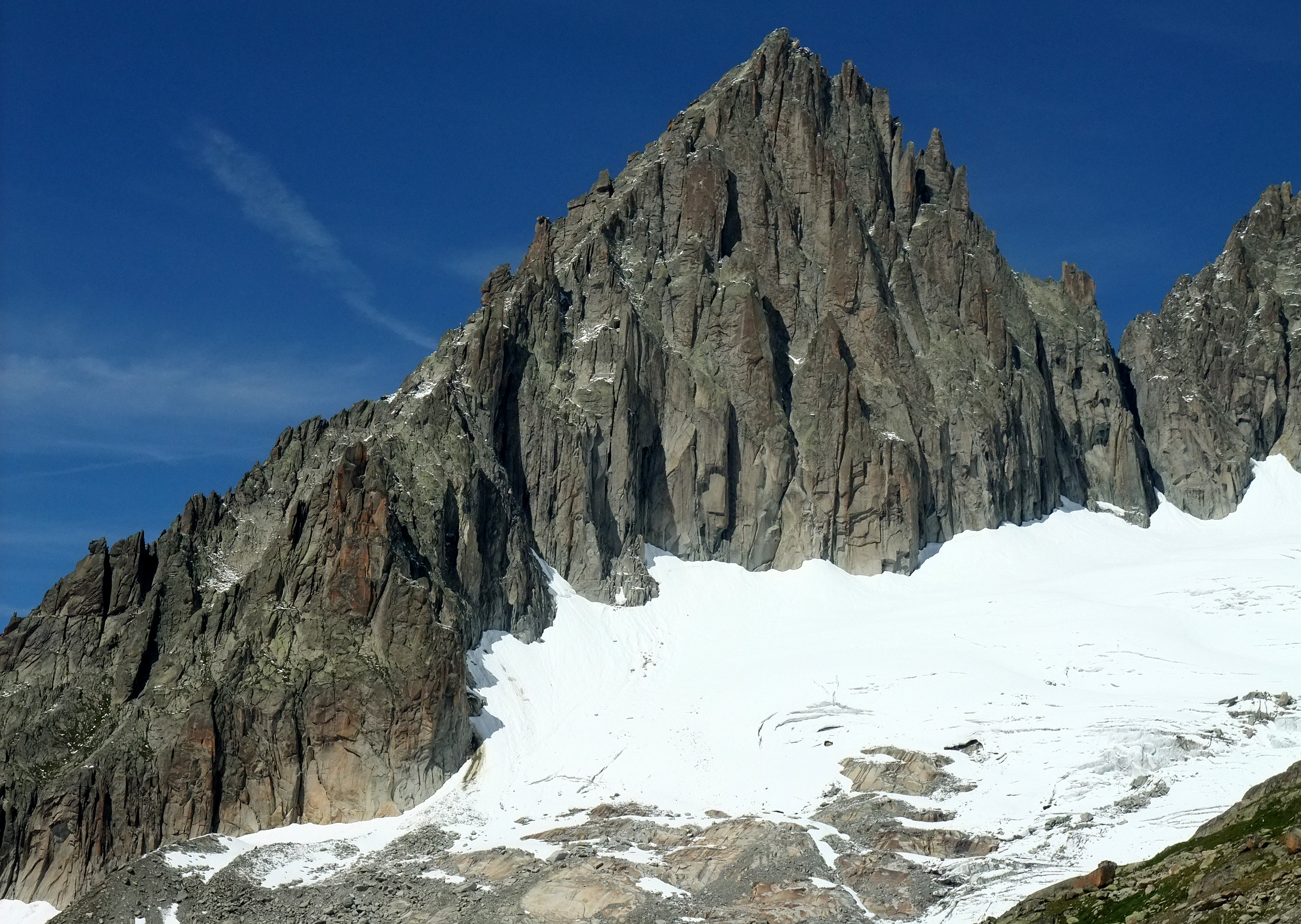 Aiguille du Moine